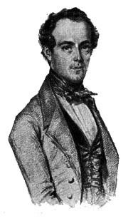 Georg Dahlqvist